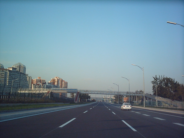 Jingcheng Expressway between 3rd and 4th Ring Roads (sunny version)